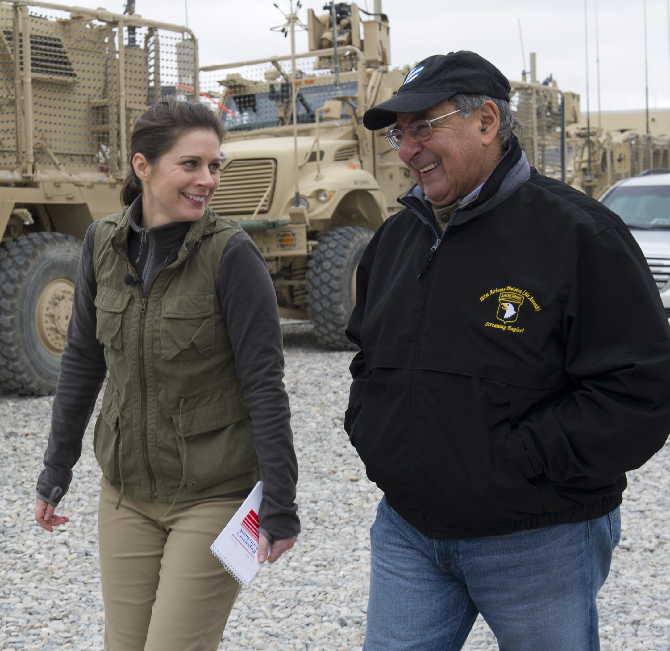 Secretary of Defense Leon E. Panetta walks with Erin Burnett during an interview in Kandahar, Afghanistan Dec 13, 2012.